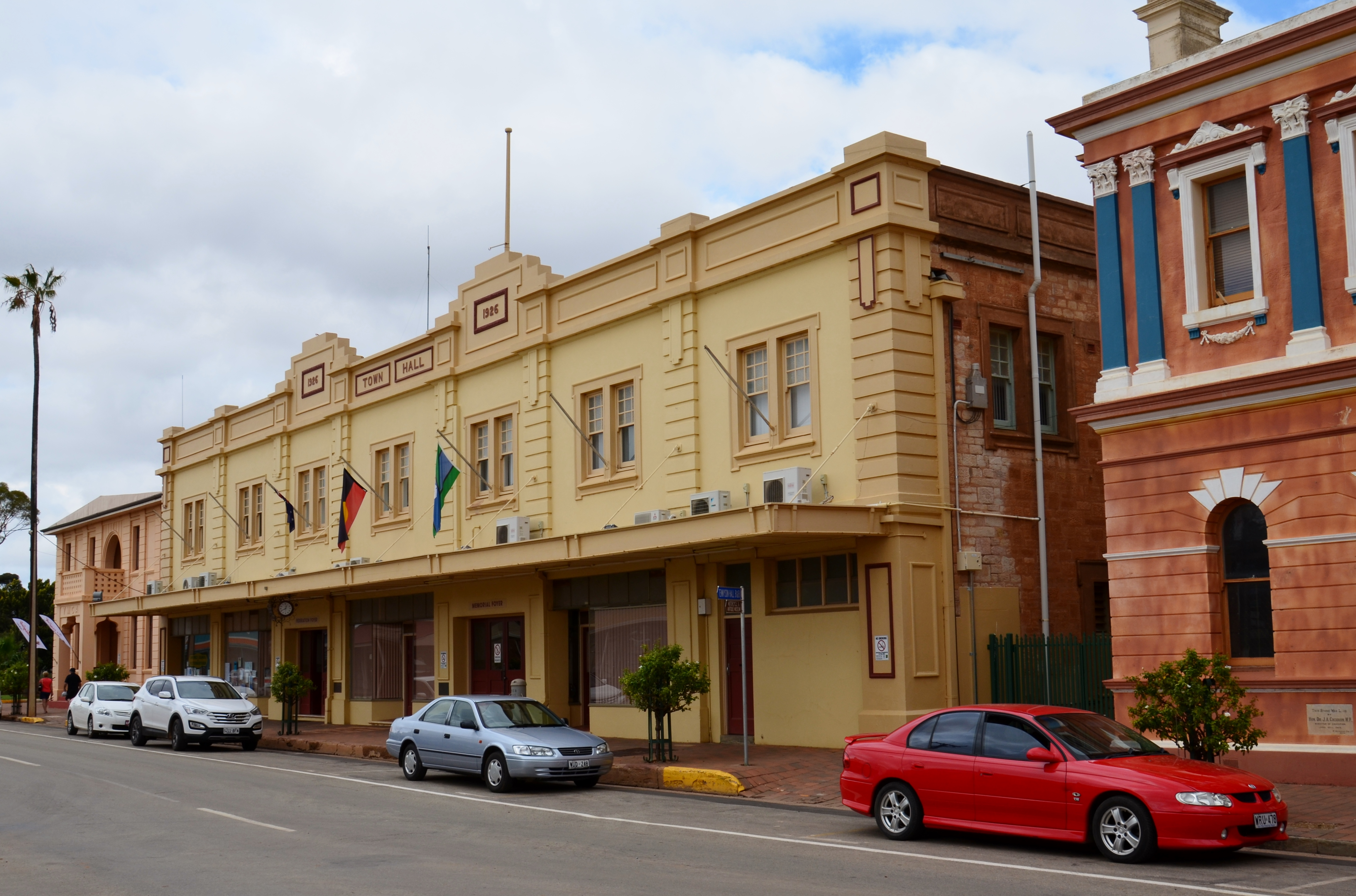 View of the former Peterborough Town Hall, Main Street, Peterborough, South Australia